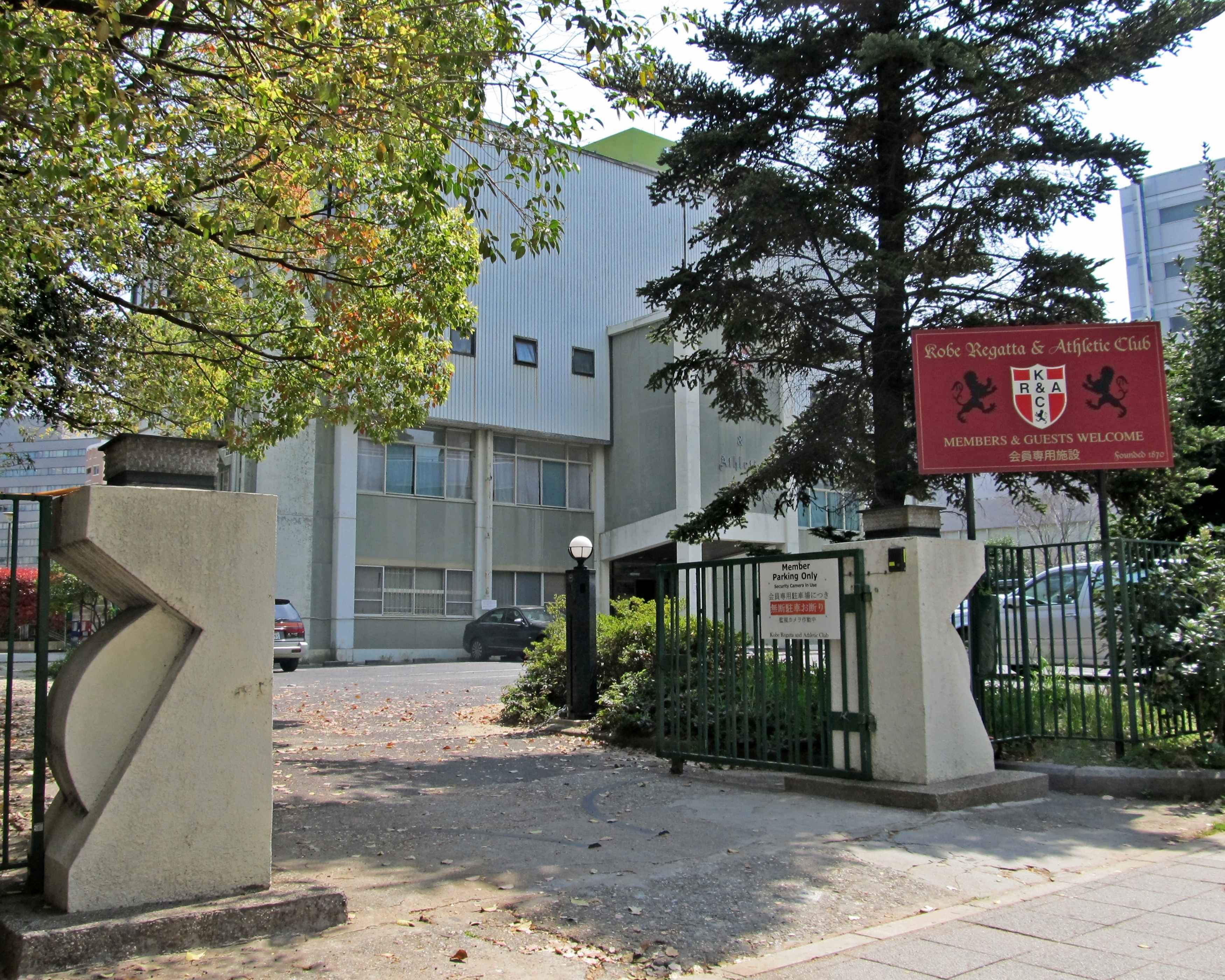 Kobe Regatta & Athletic Club(Chūō-ku,Kobe,Hyogo,Japan)